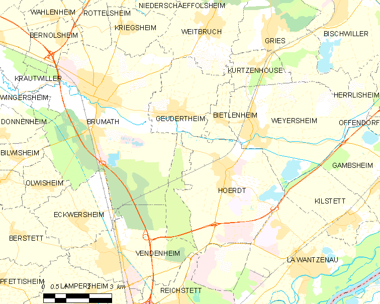 Map of French municipality